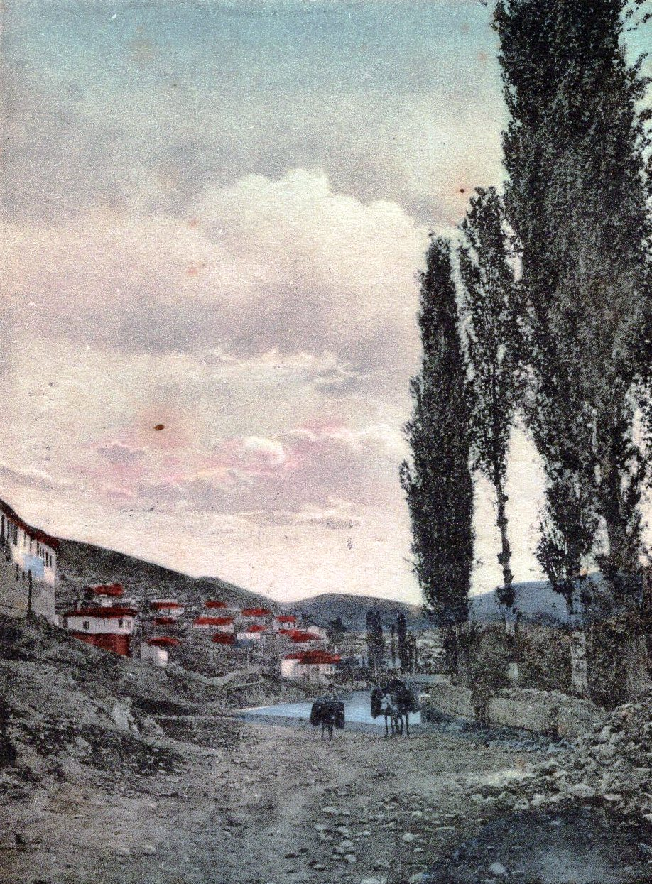 Postcard of Veles, quart "Brzorek", 1920's This media file is produced by Wikipedian in Residence in Category:Wikipedian in Residence at DARM in 2016.